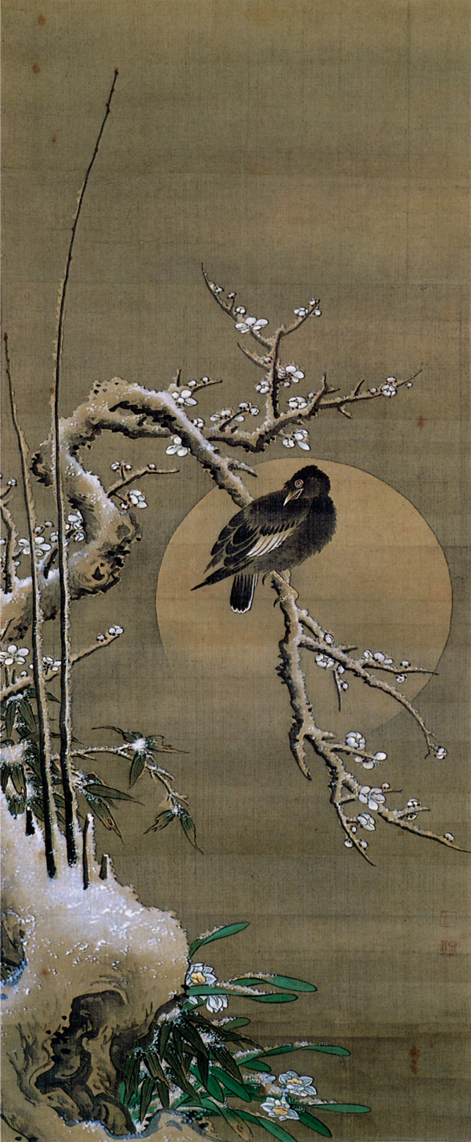 Plum Tree in snow,Ohara Keizan,hanging scroll,color on silk ,Nagasaki Museum of History and Culture